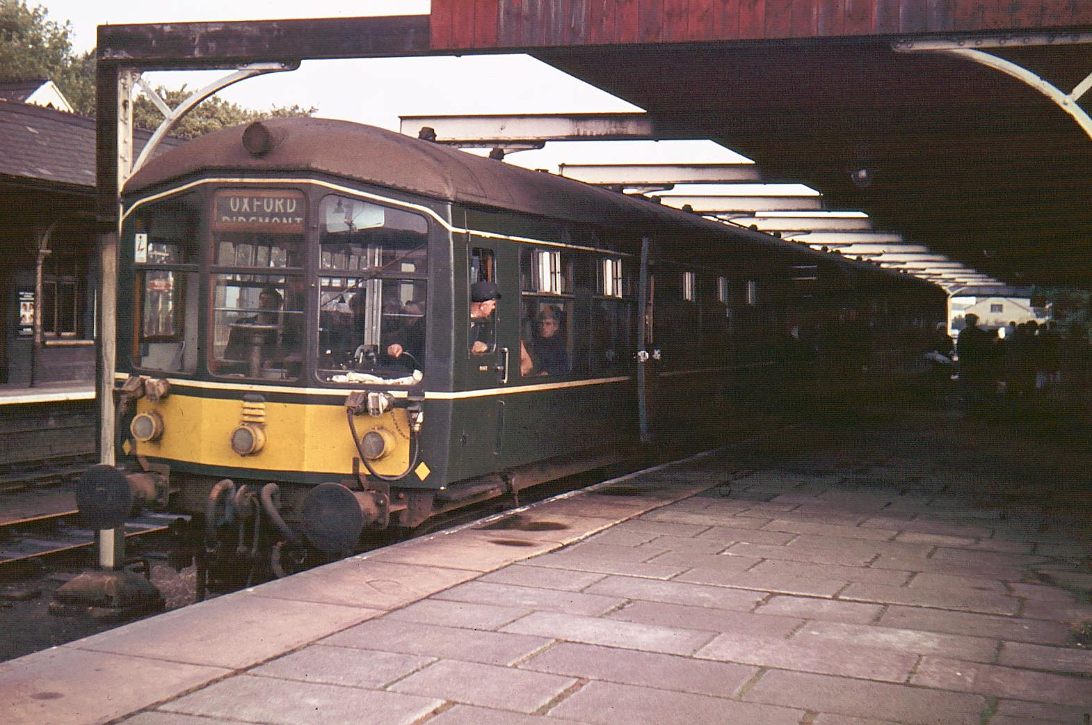 Bedford St Johns station